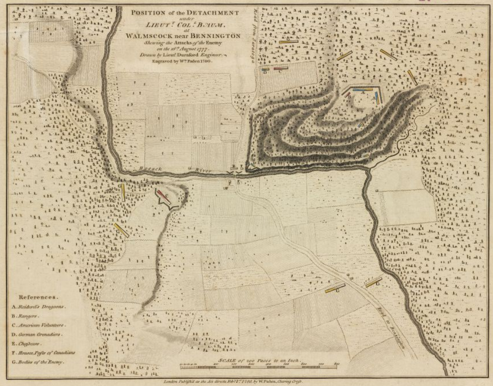 This is a map depicting the positions of the opposing forces at the 1777 Battle of Bennington, which actually took place in Walloomsac. This image has been cropped to remove borders.